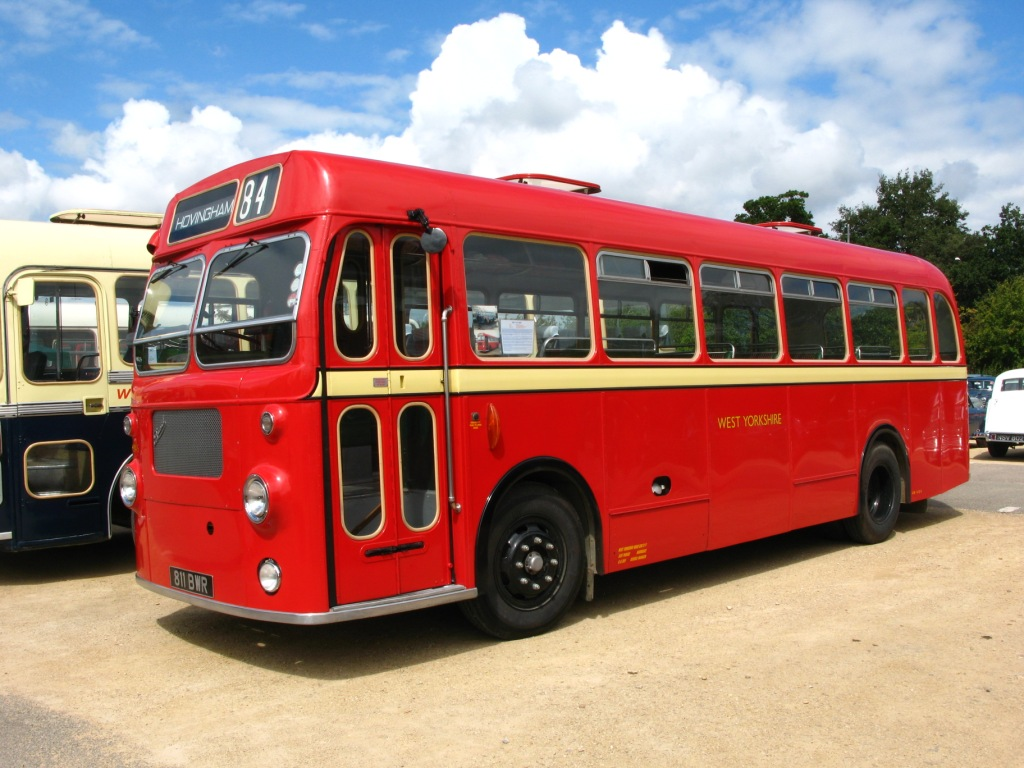 West Yorkshire SMA5 (811 BWR) is a preserved Bristol SUL with Eastern Coach Works bus body built in 1962.